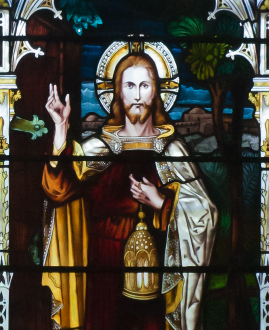 Detail of the third window of the north wall with stained glass depicting Jesus: I am the light of the world (John 8:12).